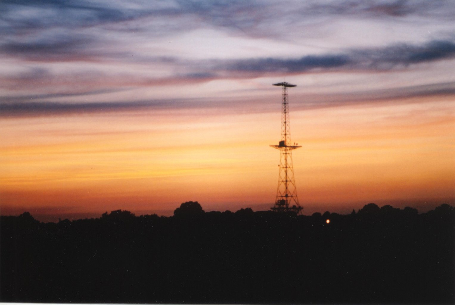 Marconi Tower, a World War II Chain Home antenna tower at Marconi Research Centre, at sunset.